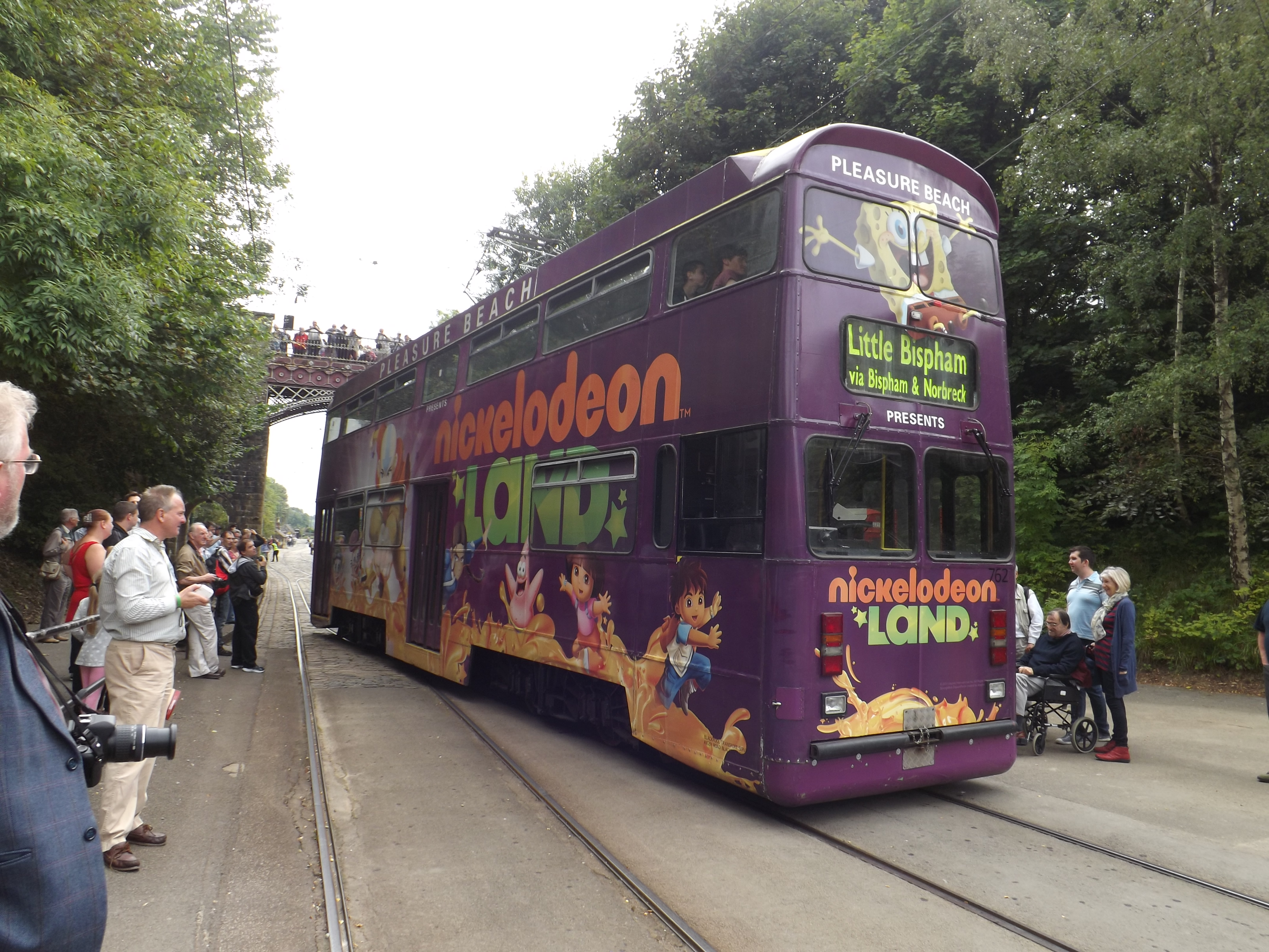 1982-built Blackpool Tramcar No.762 running at the National Tramway Museum, Crich, Derbyshire, during the museum's "Electric 50" event, 13th September 2014. This was it's first day in service at Crich, however the tram suffered problems resulting in it being confined to the depot for most of the day. The car is running over the interlaced (or gaunlet) track under the Bowes Lyon Bridge.